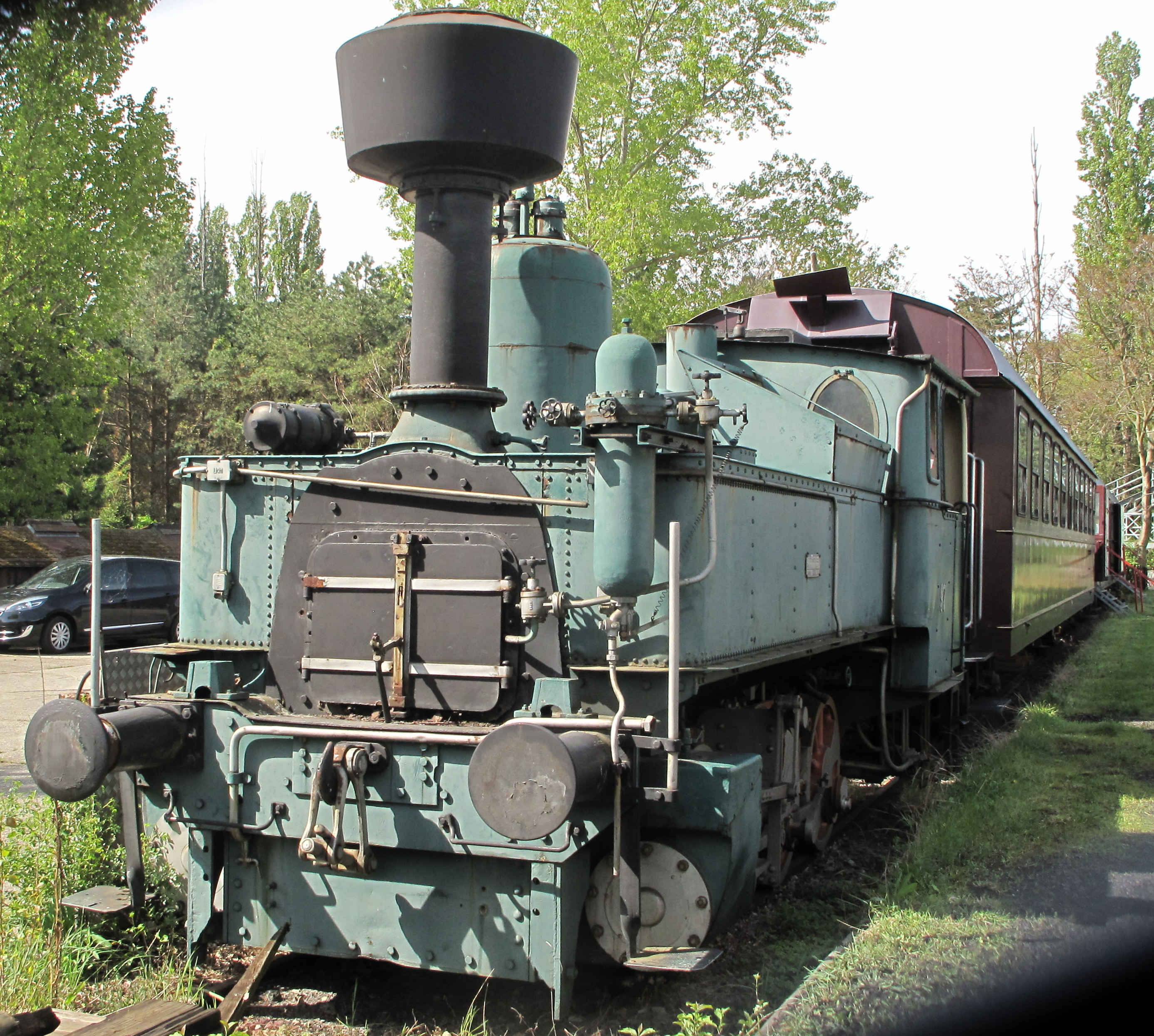 ÖBB 0-6-0T 97.273 at Heizhaus